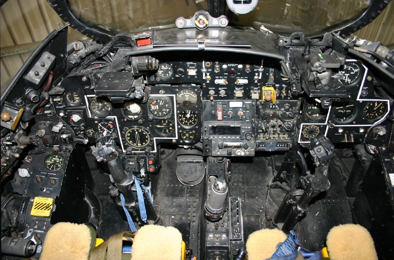 Cockpit view of Hunter One, VH-RHO, trainer T75 (twoseater). Photo taken on the 28th March 2005 after a local flight.